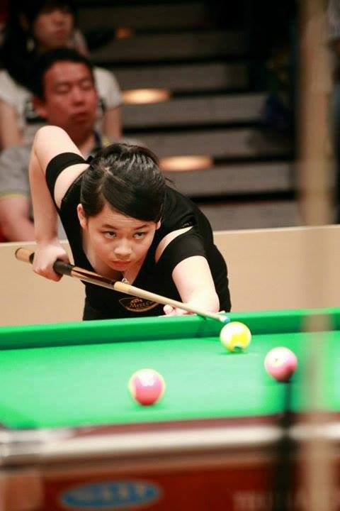 Zhiting Wu on JPBA（Japan Professional Pocket-Billiard Association）held tournament Japan Open Ladies 2013.